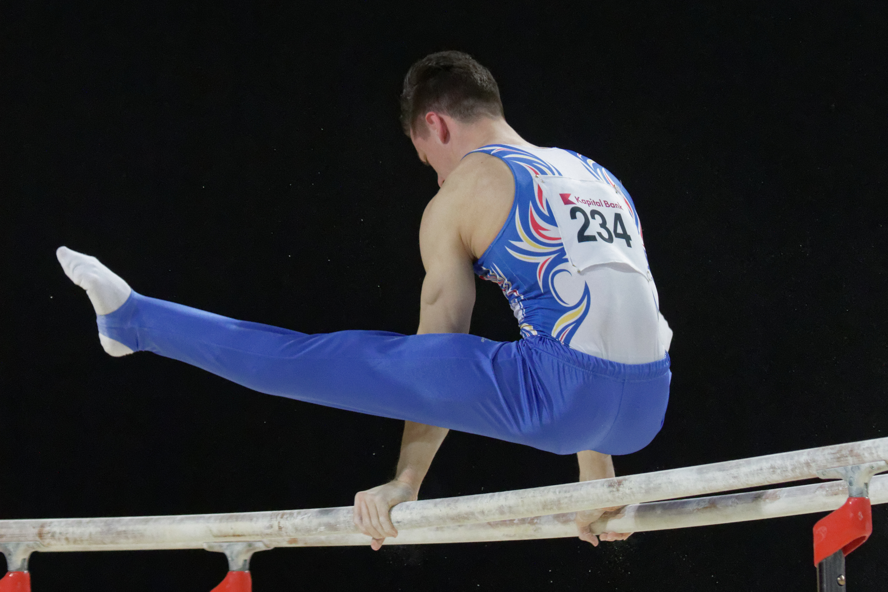 2015 European Artistic Gymnastics Championships.